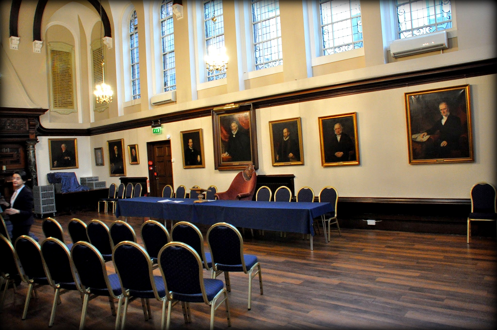 The College Hall is the largest function suite and is one of the grandest. It has many beautiful, original features including magnificent ceilings, dazzling chandeliers and an impressive Victorian fireplace. It was purpose built in 1892 as a venue for formal events, oral examinations and Ceremonies for Admission of new Fellows and Members to the College.